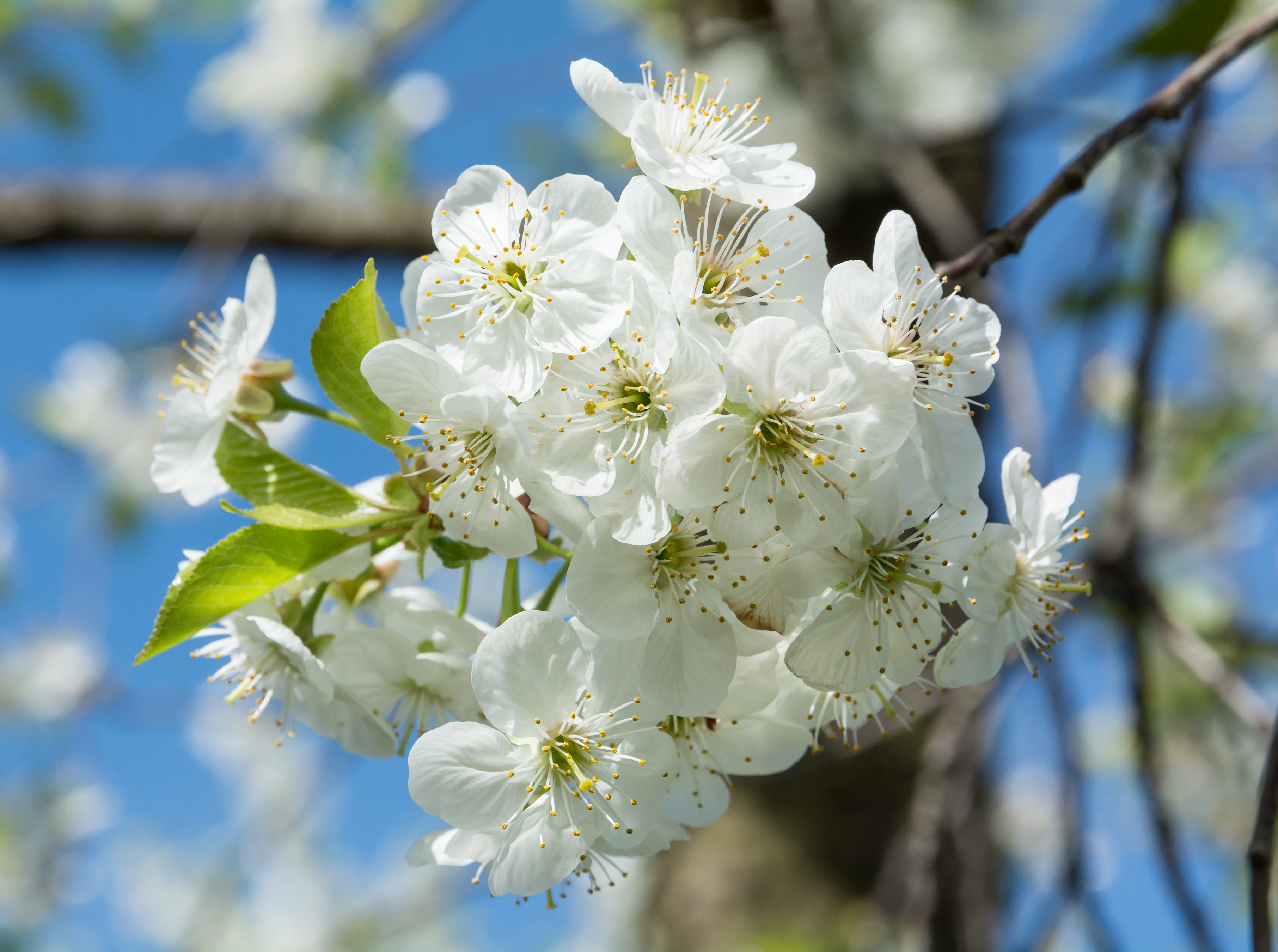 Sour cherry Prunus cerasus blossoms